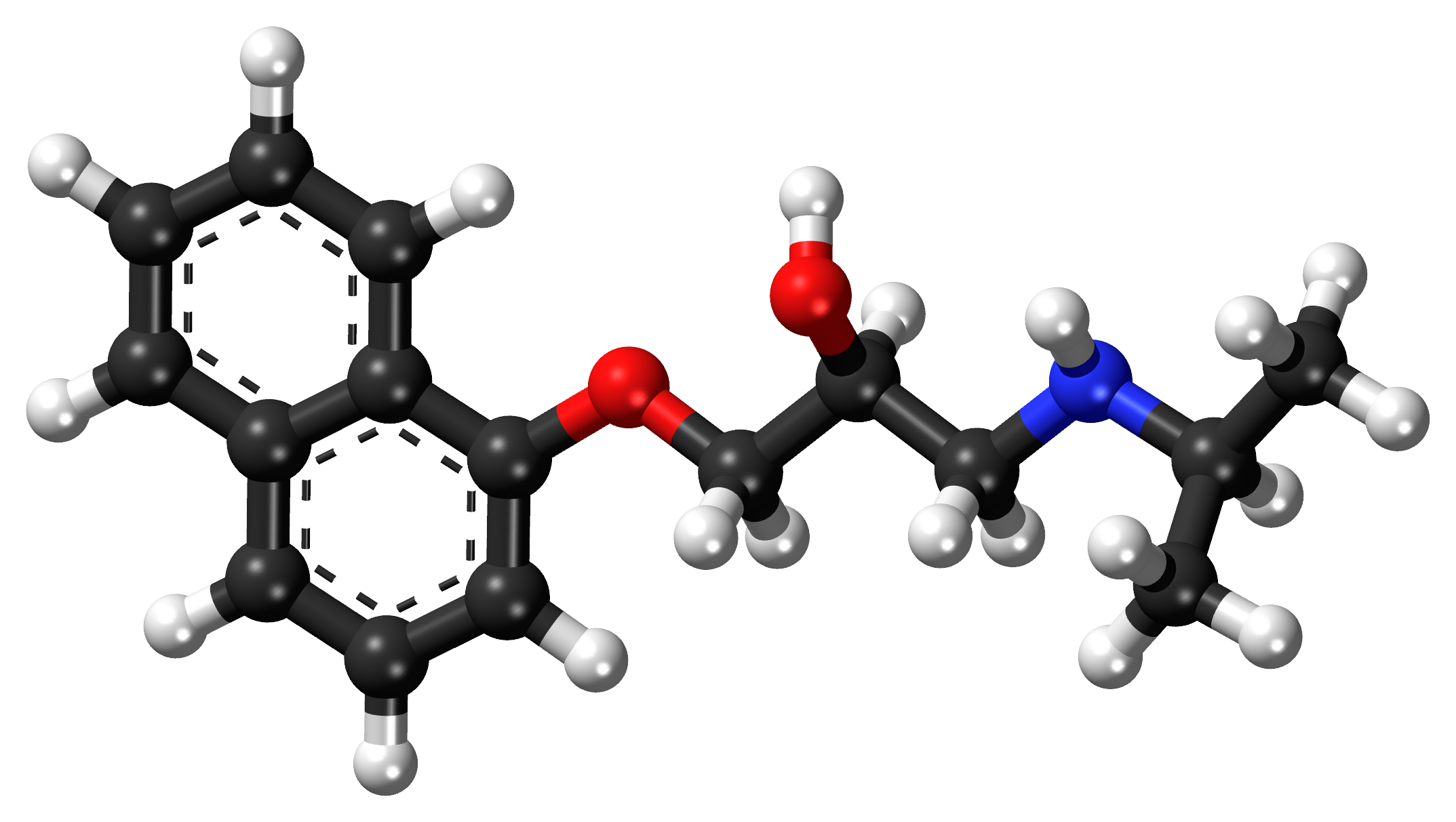 Ball-and-stick model of propranolol — a widely used β-blocker. (S)-(−)-enantiomer is portrayed. Created using Accelrys DS Visualizer 4.1 and Adobe Photoshop CC 2015. Colors used: Carbon, C: black Hydrogen, H: white Nitrogen, N: blue Oxygen, O: red This chemical image was created with Discovery Studio Visualizer.